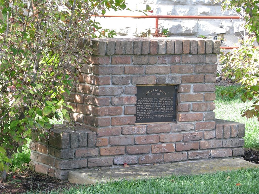 Located at the Warren County courthouse in McMinnville, Tennessee.